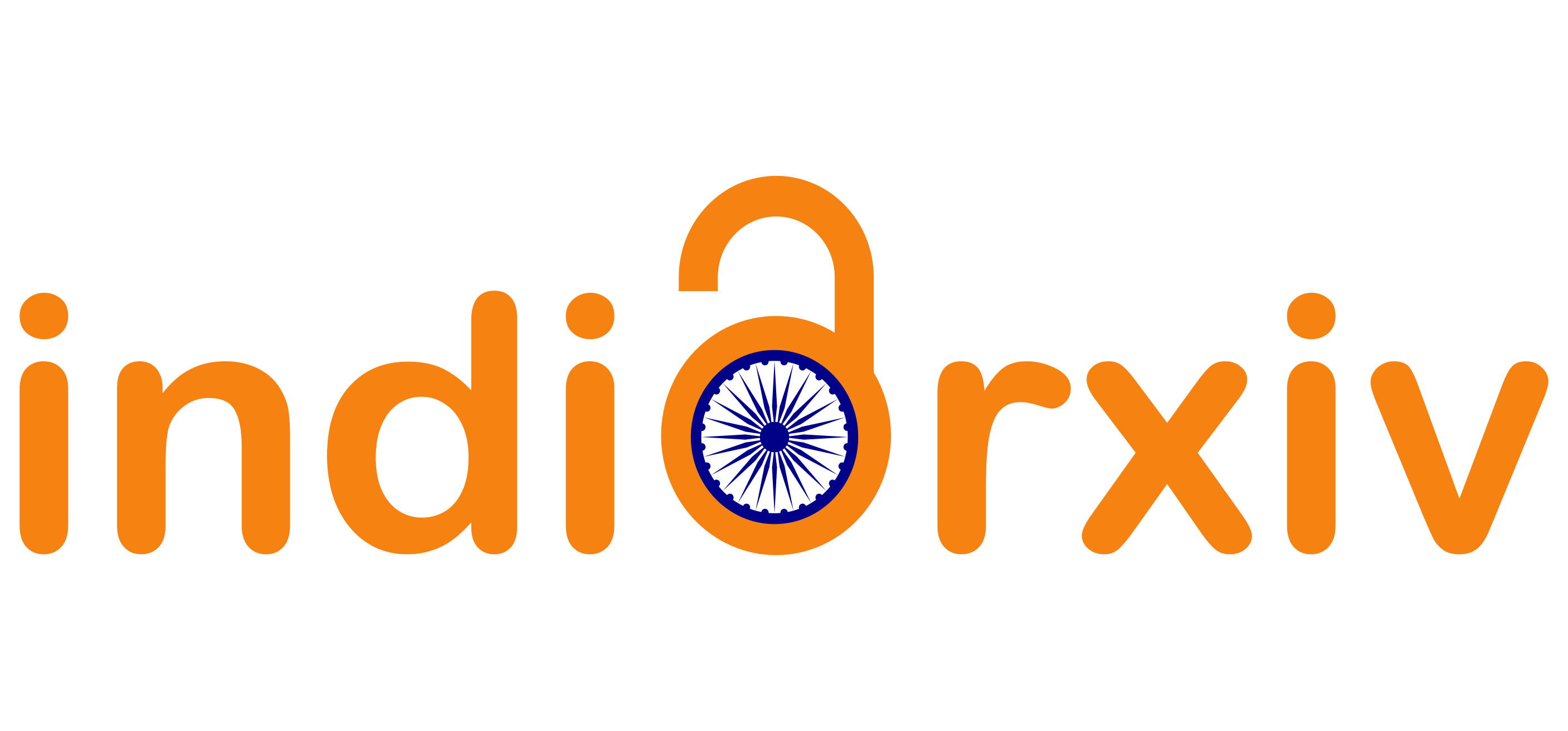 IndiaRxiv, the first Preprint repository for Indian Research. Officially launched on 15th August 2019